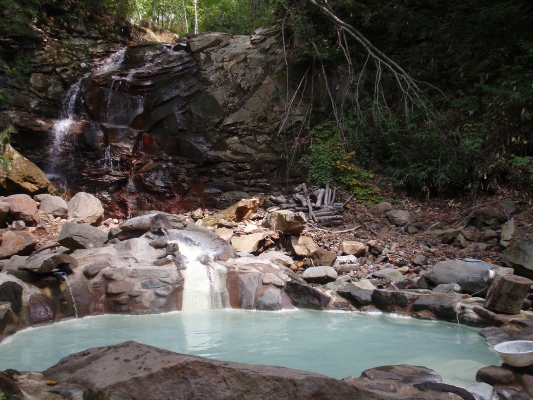 Amihari spa Sennyo no yu in Shizukuisi, Iwate, Japan.